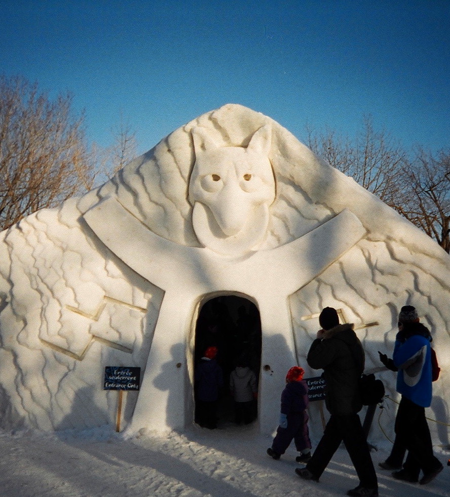 Ice sculpture museum at the annual Winterlude in Gatineau, Québec, Canada.